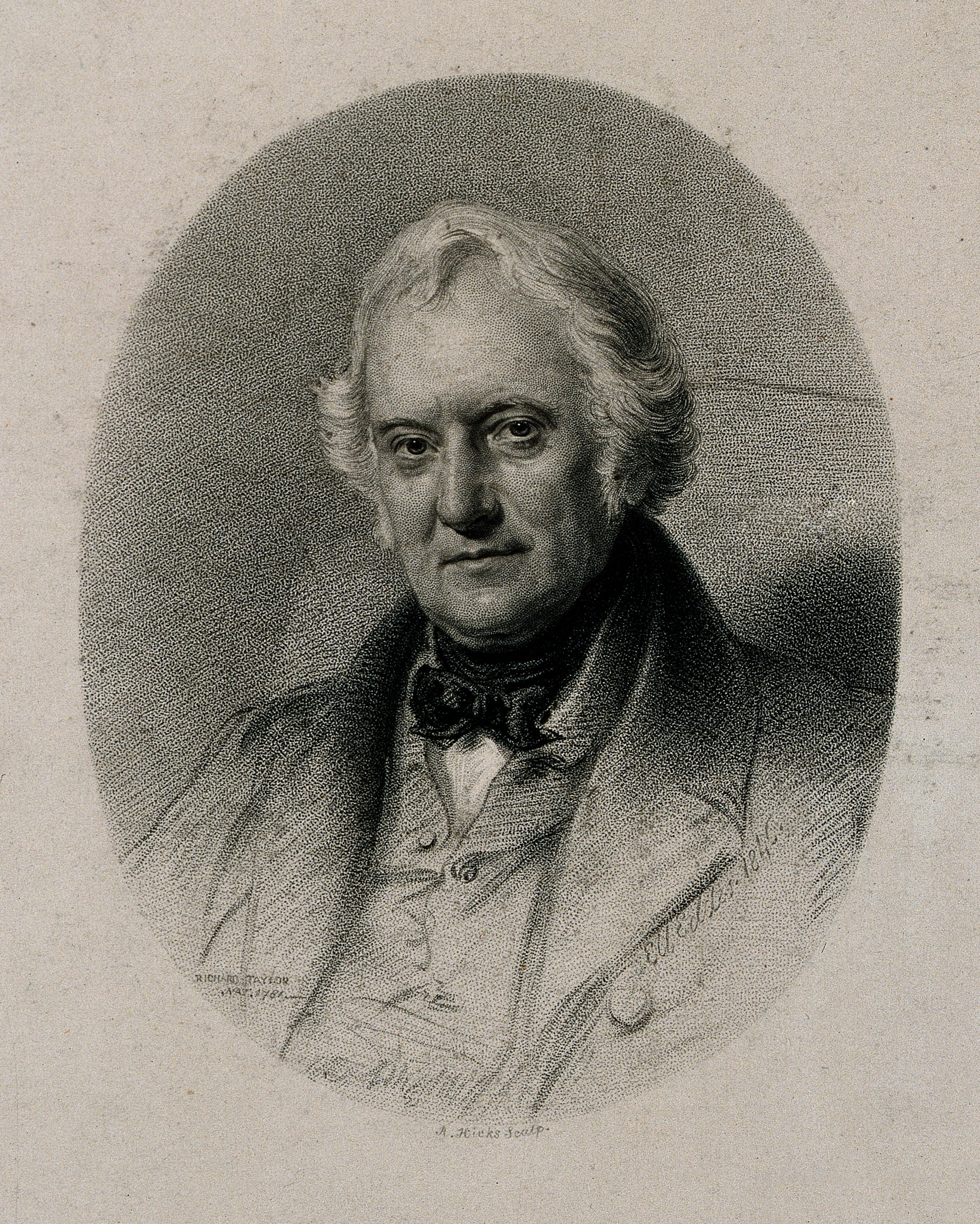 Richard Taylor (1781–1858) naturalist and editor. Stipple engraving by A. Hicks after E. U. Eddis, 1846. Iconographic Collections Keywords: portrait prints; stipple prints; Richard Taylor